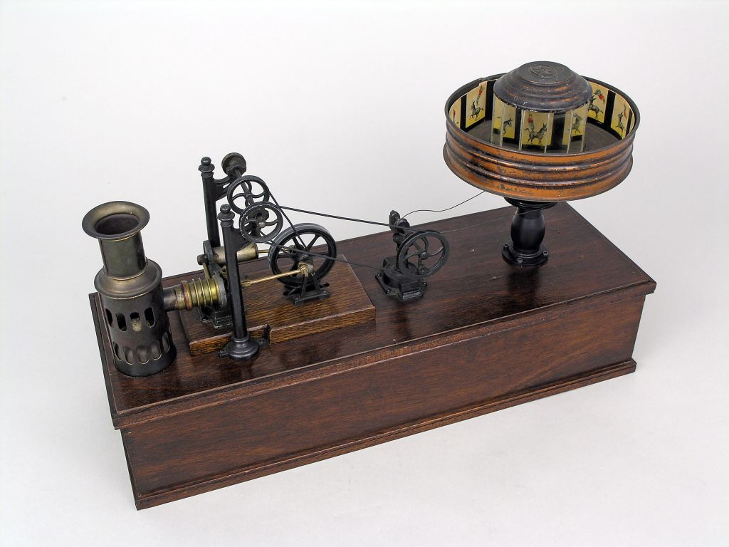 Hot Air Engined Praxinoscope Optical toy attached to motor (can be linked to a computer). Rectangular wooden box. On top there is, on the left a wooden stand on top of which is a horizontal wooded disc, covered on the edge with mirrors. On the left hand side there is a copper alloy cylinder. In between the two is a series of wheels and pulleys. Made by Ernst Plank, Nuremberg, Germany Editing Undertaken: Auto Levels, Auto Contrast, Brightness/Contrast, Unsharp Mask